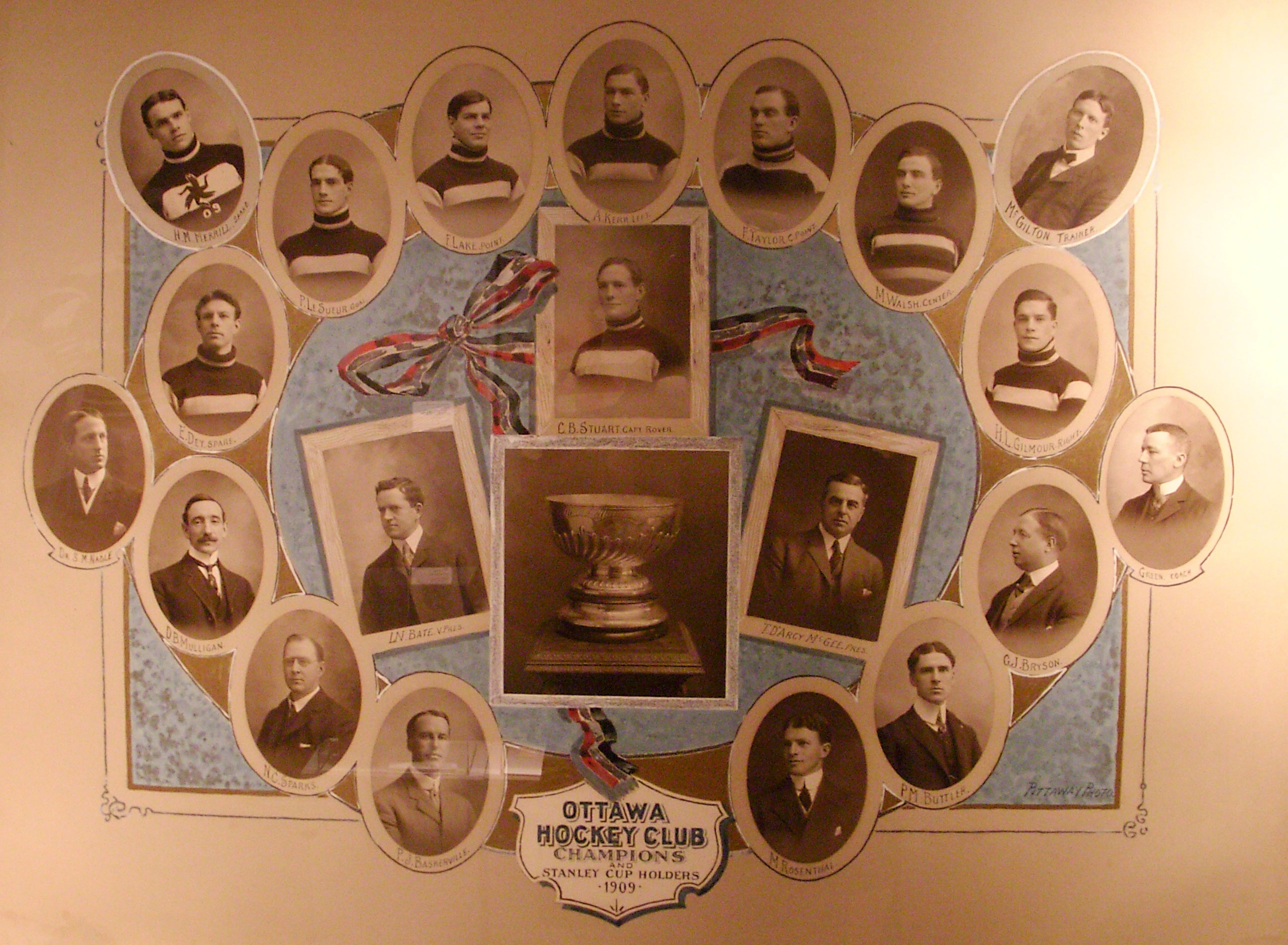 Team photograph of the Ottawa Hockey Club, Stanley Cup champions 1909.